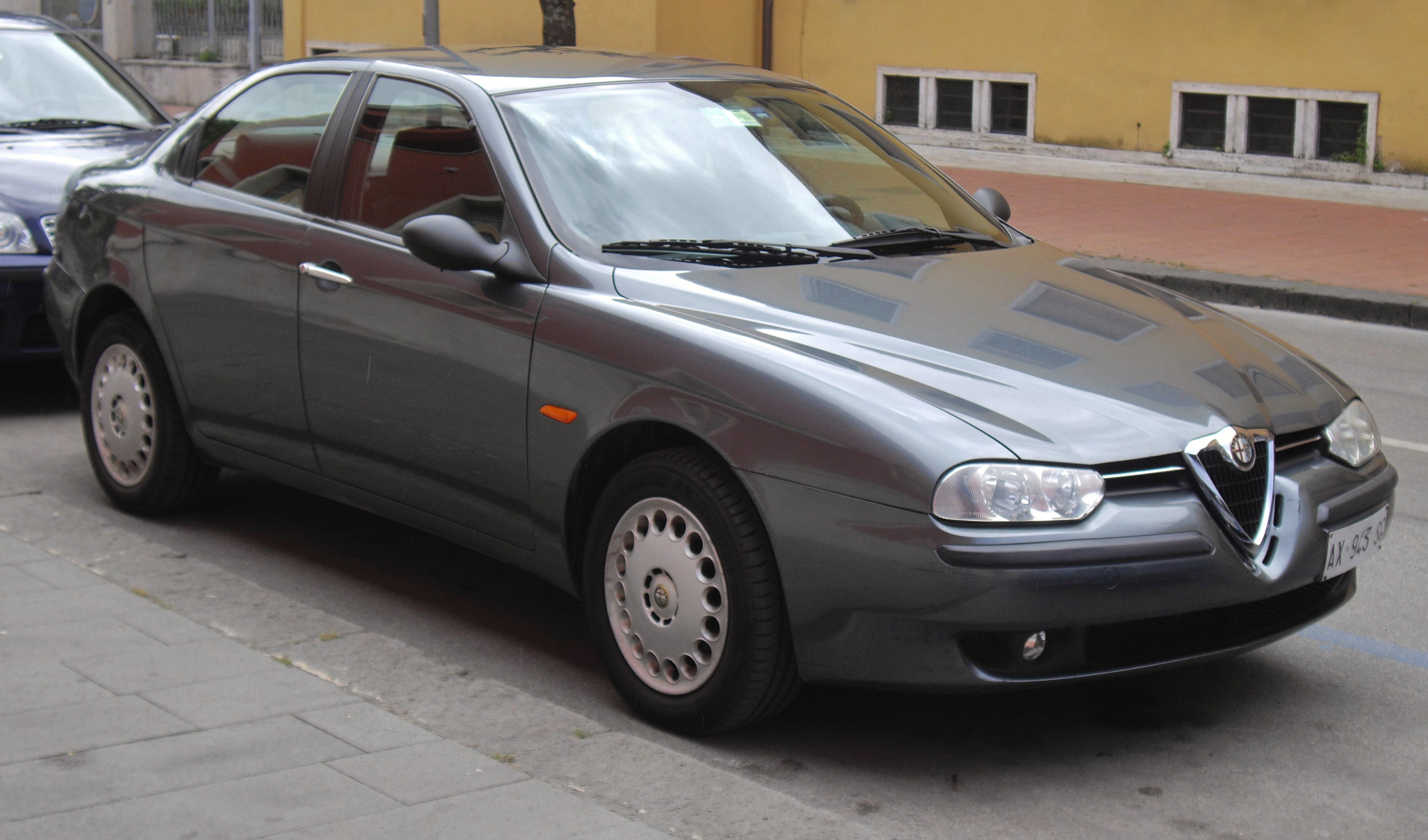 Alfa Romeo 156 sedan 1.9 JTD